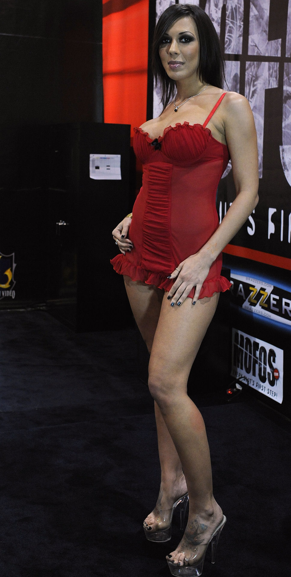 Rachel Starr at AVN Adult Entertainment Expo 2011